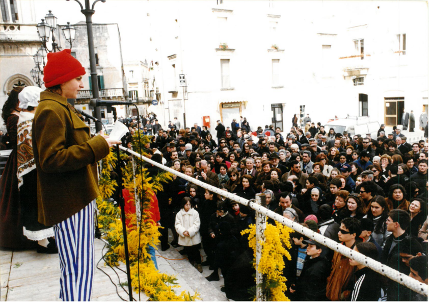 Celebrations for the Bicentenary (1999) of the Altamuran Revolution (1799) - Rehearsal in piazza Duomo (Altamura) performed by the students of Altamura high school Liceo scientifico Federico II di Svevia